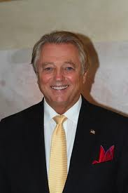 American Actor, Political Activist, Writer, Producer